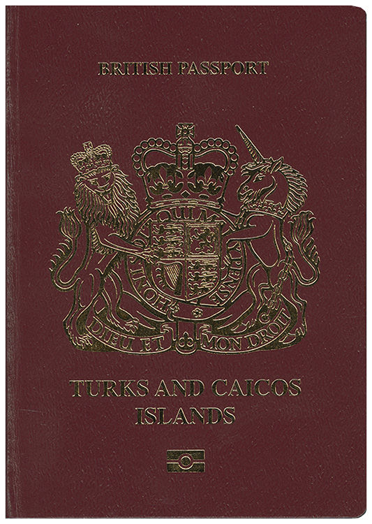 British passport (Turks and Caicos Islands)